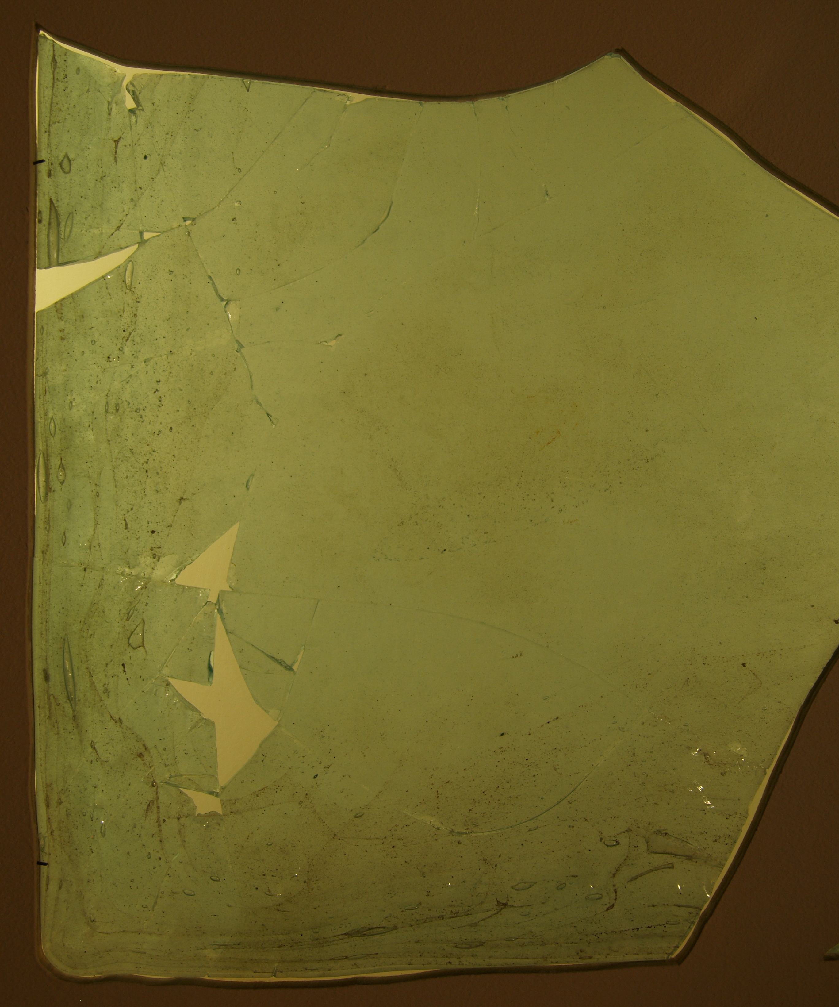 Antique Roman window glass. Found in a Roman castle in Straubing, Bavaria, Germany. Dated to approx. 1st to 4th century A.D. Photographed at Gäubodenmuseum, Straubing, Germany.